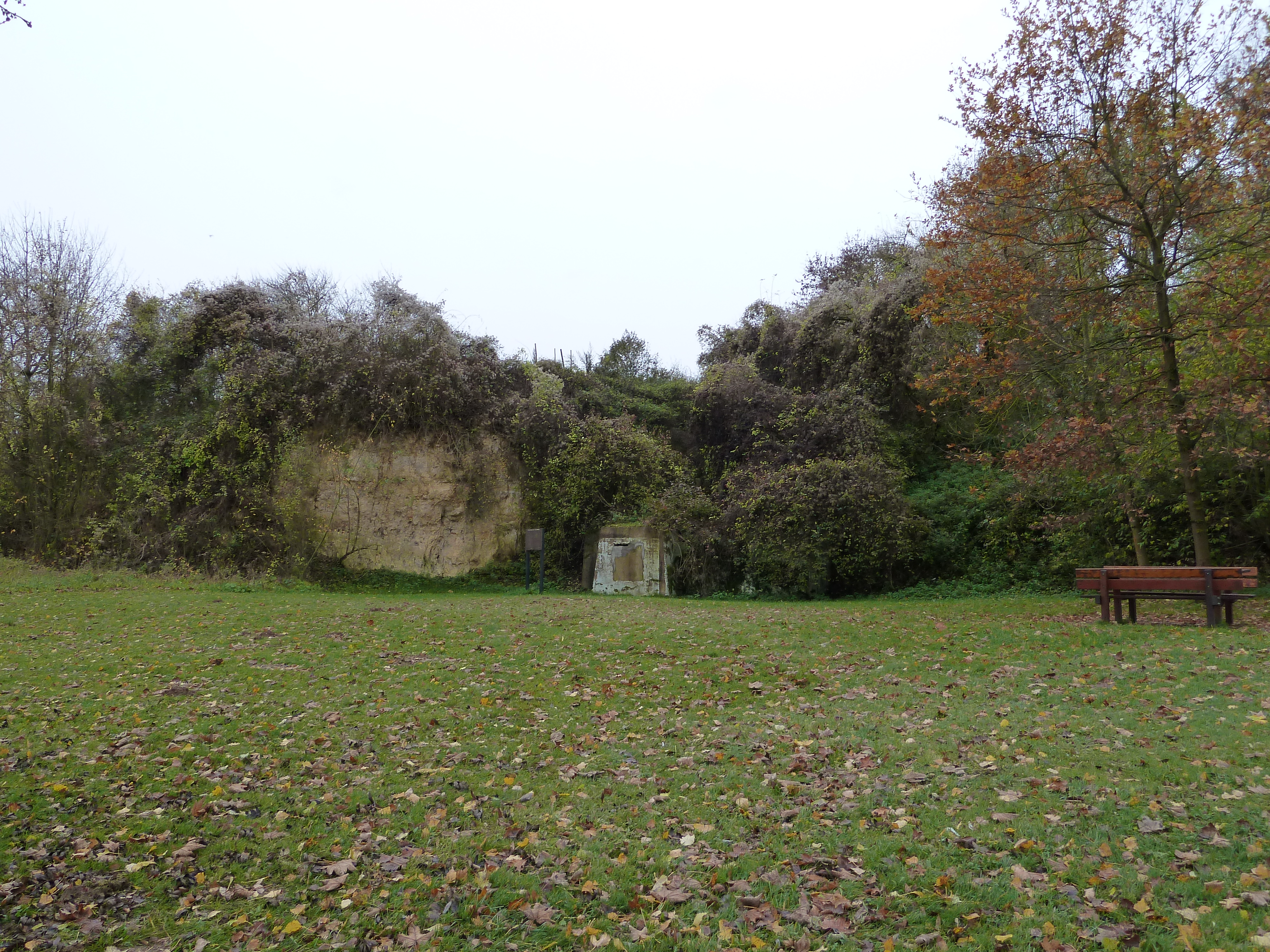 Geological monument Groeve Midweg, Voerendaal, Limburg, the Netherlands